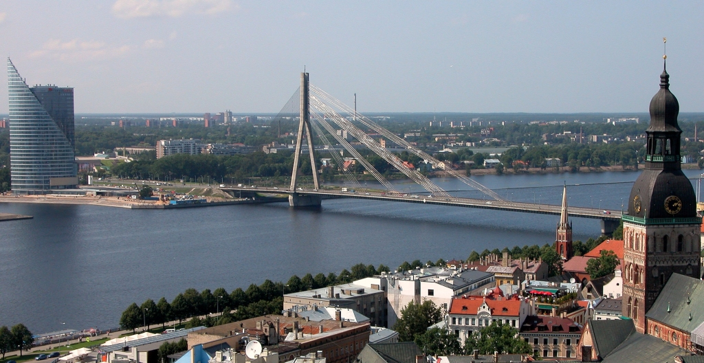 Riga: View over the old town with the cathedral (right) and the bridge over the Daugava.